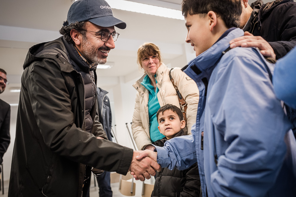 Hamdi Ulukaya, founder of Chobani Greece Yoghurt, visits refugee facilities and volunteers in Hamburg, Germany